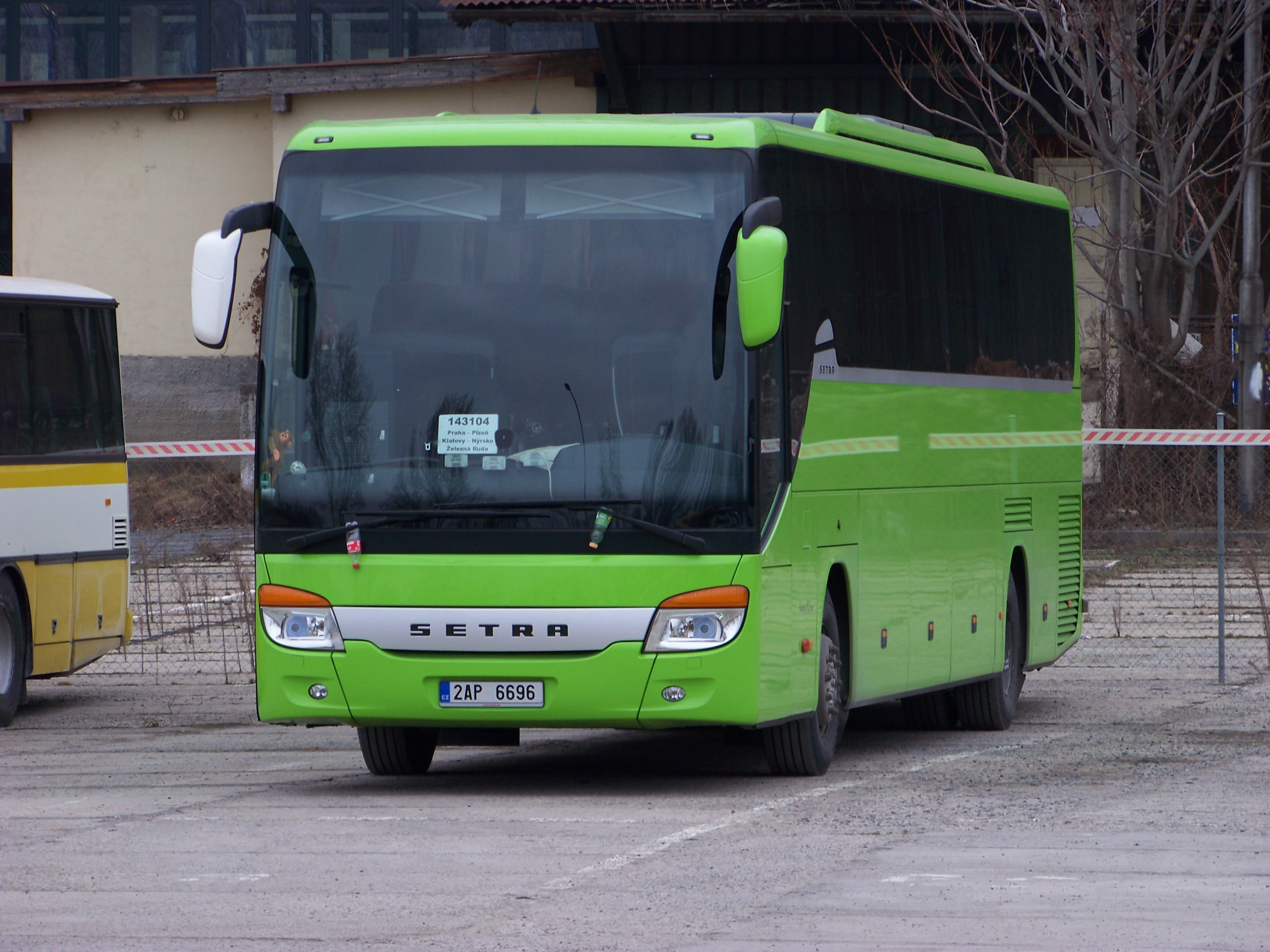 Prague-Karlín, the Czech Republic. Rohanský ostrov, a bus of Autobusy VKJ. - OpenStreetMap(Info)